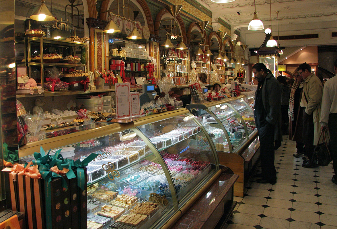 Confectionery counter in the ground floor food halls of Harrods department store, Knightsbridge, London.